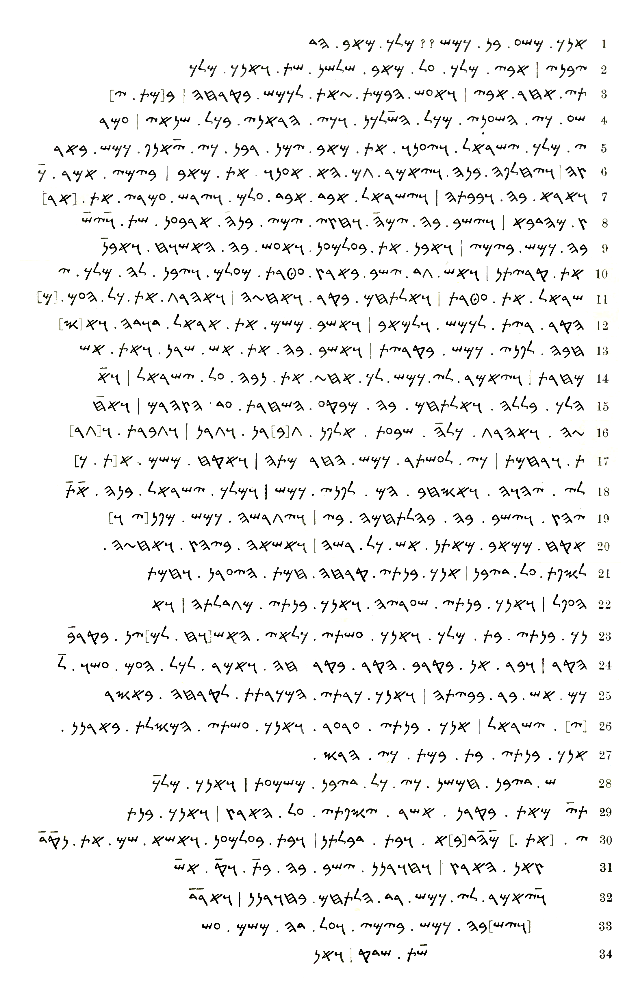 Schema of the Mesha Stele